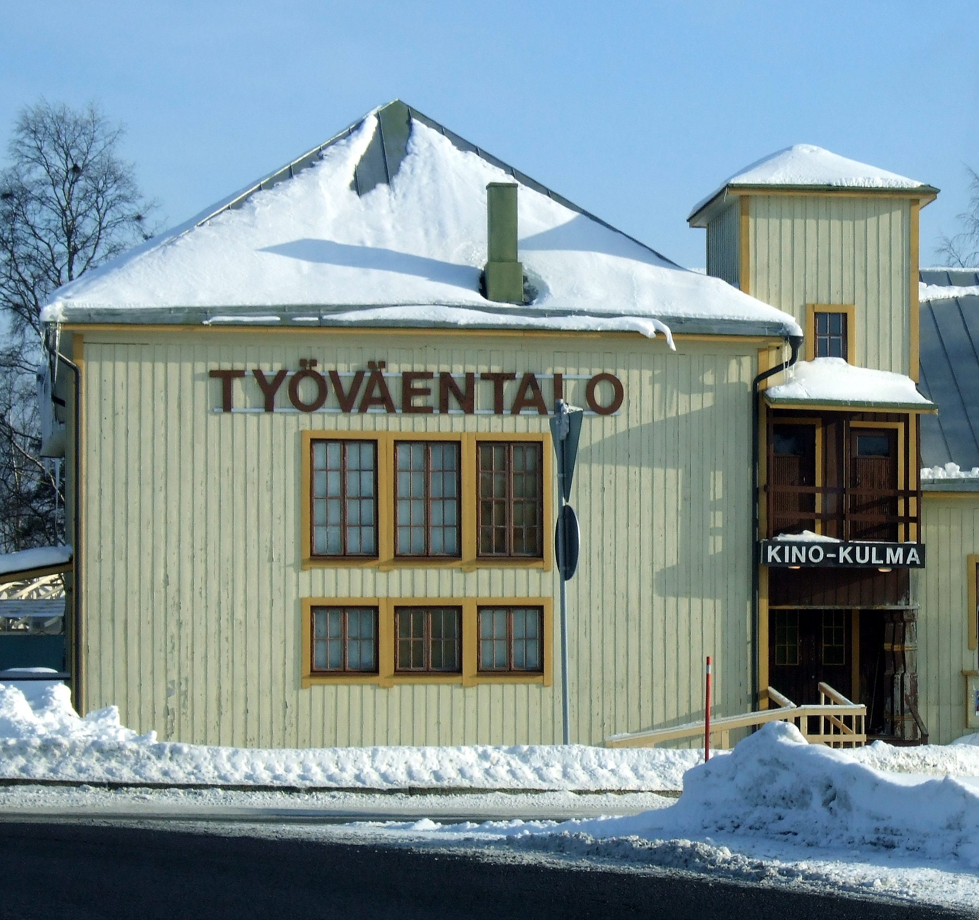 The workers' community hall and cinema of the village Ii, Finland. Designed by Harald Andersin and built in 1915.